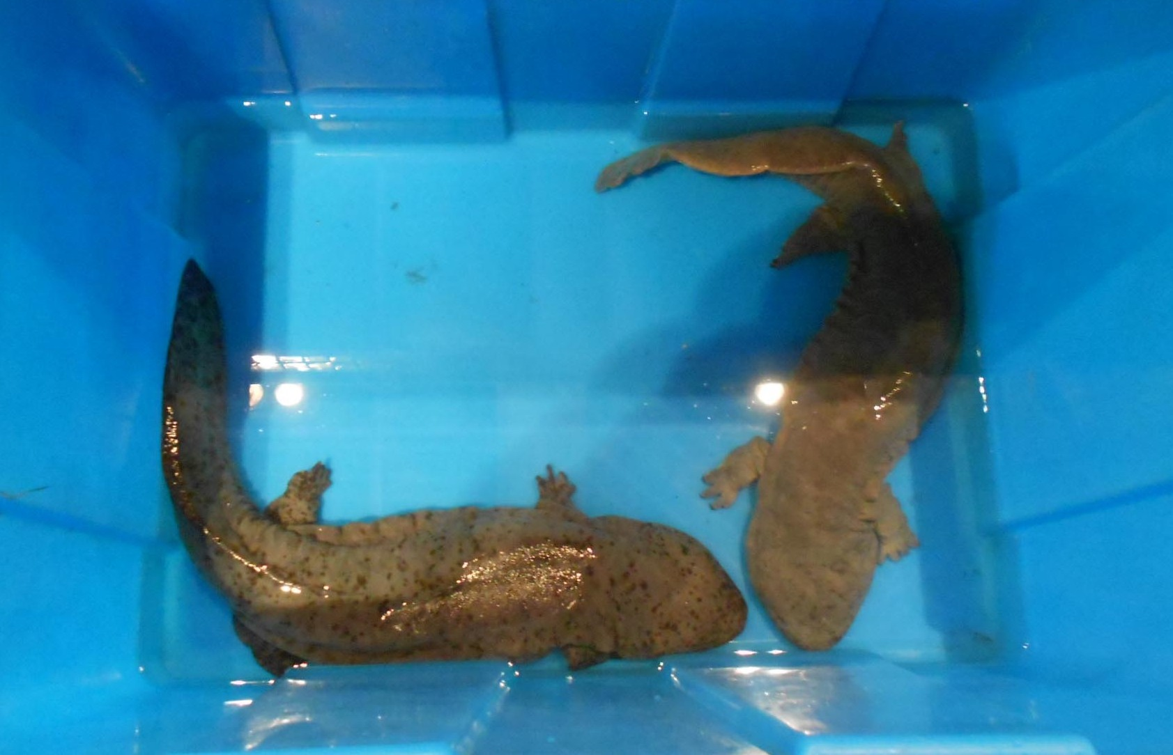 Chinese giant salamander (Andrias davidianus) for sale in a restaurant in Hongqiao (虹桥), Wenzhou, Zhejiang, PR China. The price was 880RMB/jin (0.5 kg).